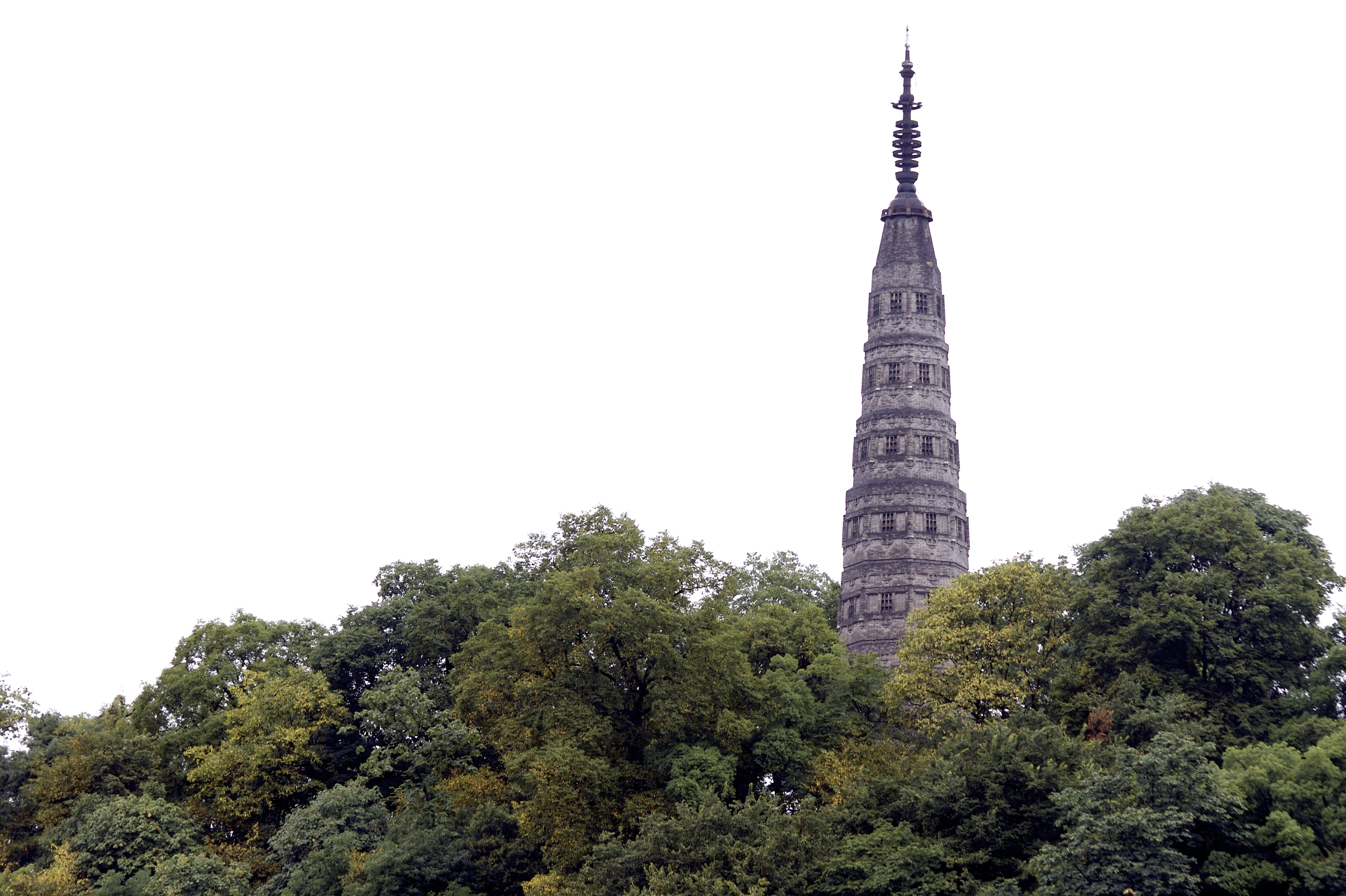 The Baochu Pagoda in Hangzhou, China.